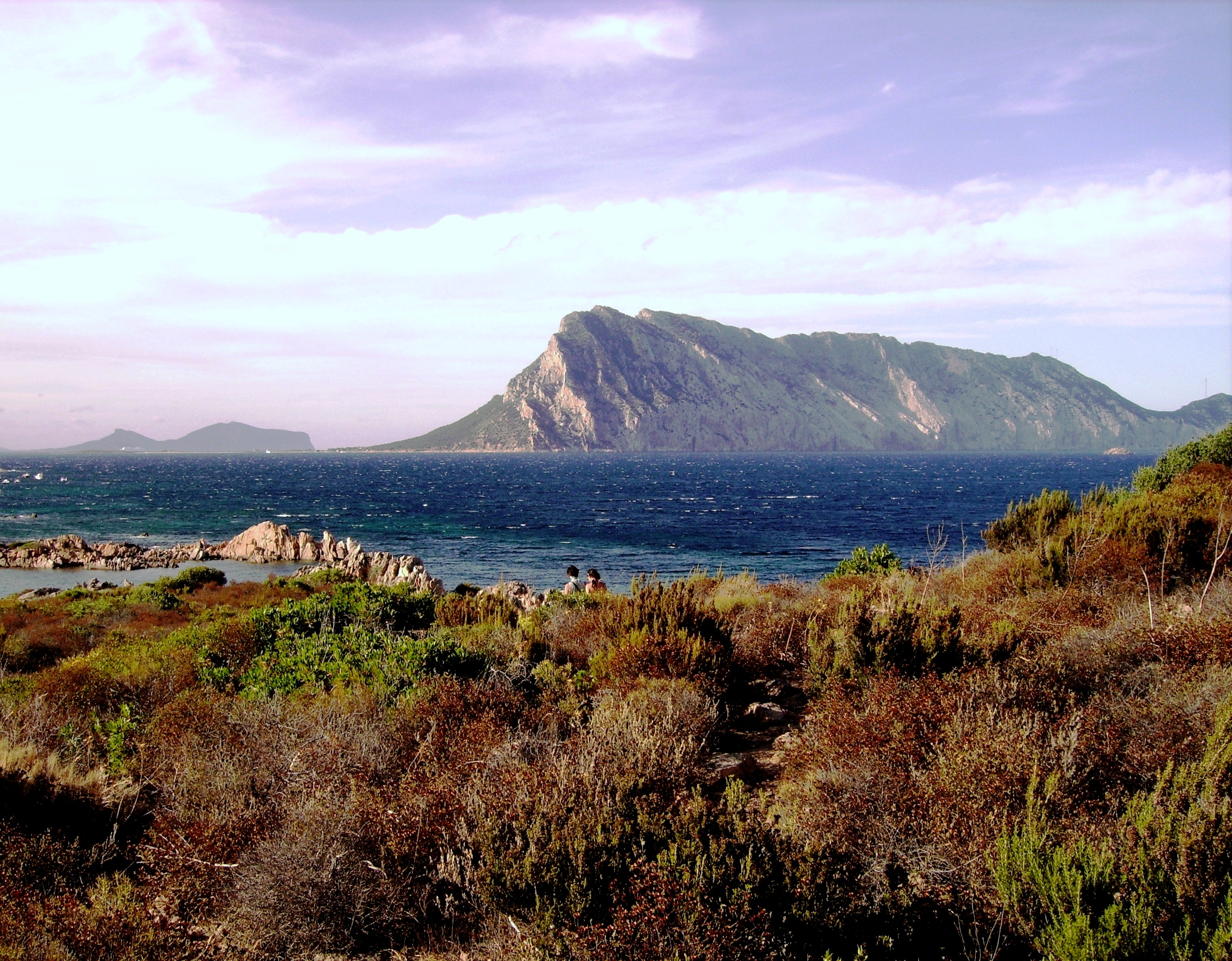 Sardinia Italy Tavolara island from "Cala Ginepro" - San Teodoro - OT Own work - august 2006 --Shardan 17:08, 14 September 2007 (UTC)